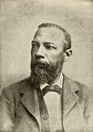 Portrait of Jacob C. White Jr..